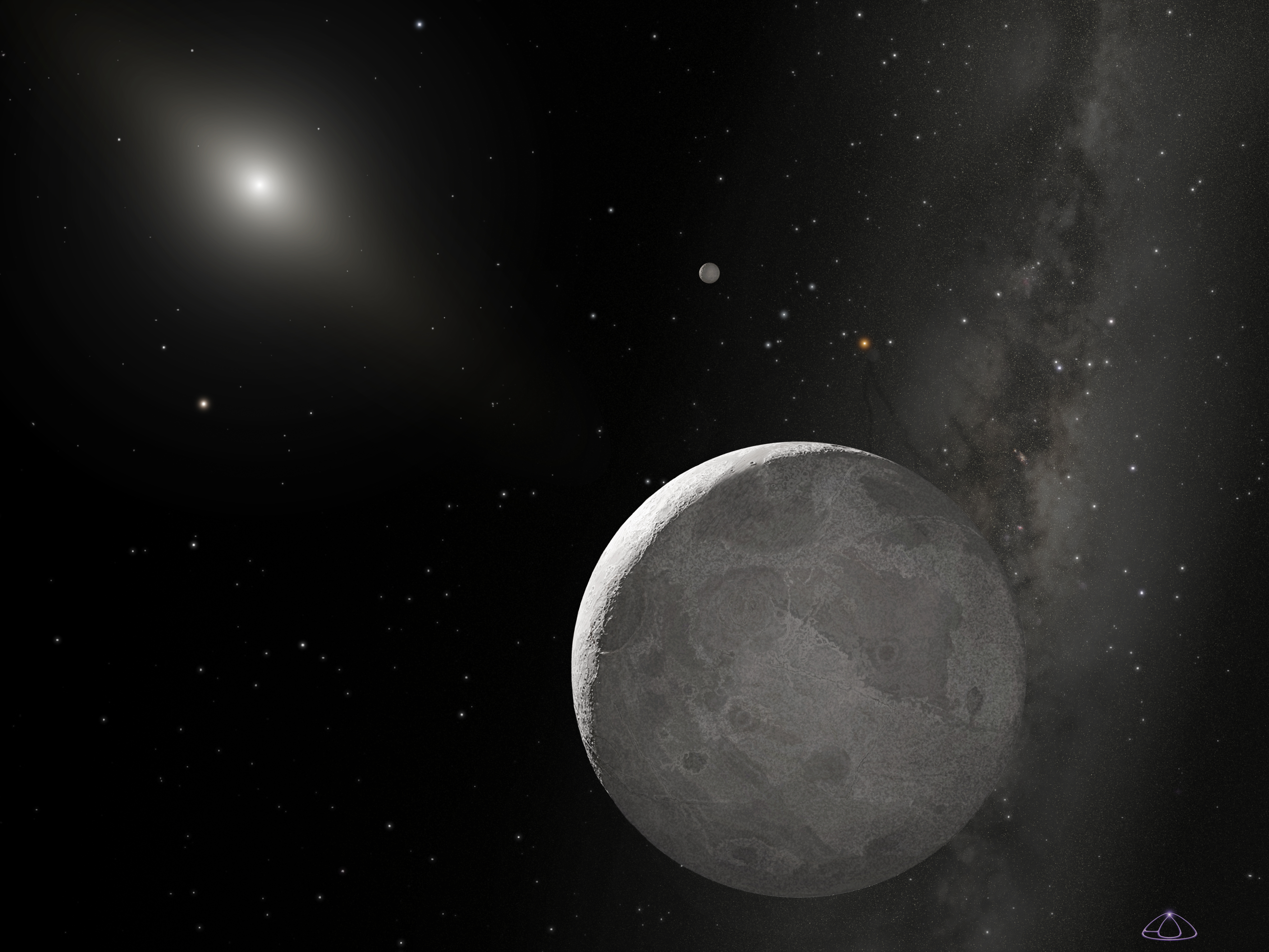 Eris and its moon. Surface details are fictional. The moon may be too small to be spherical. The Sun would be about magnitude -16.7 as seen from Eris during aphelion. And the not directly enlightened part of the disk would be in reality all dark, only the lighted crescent would be visible.